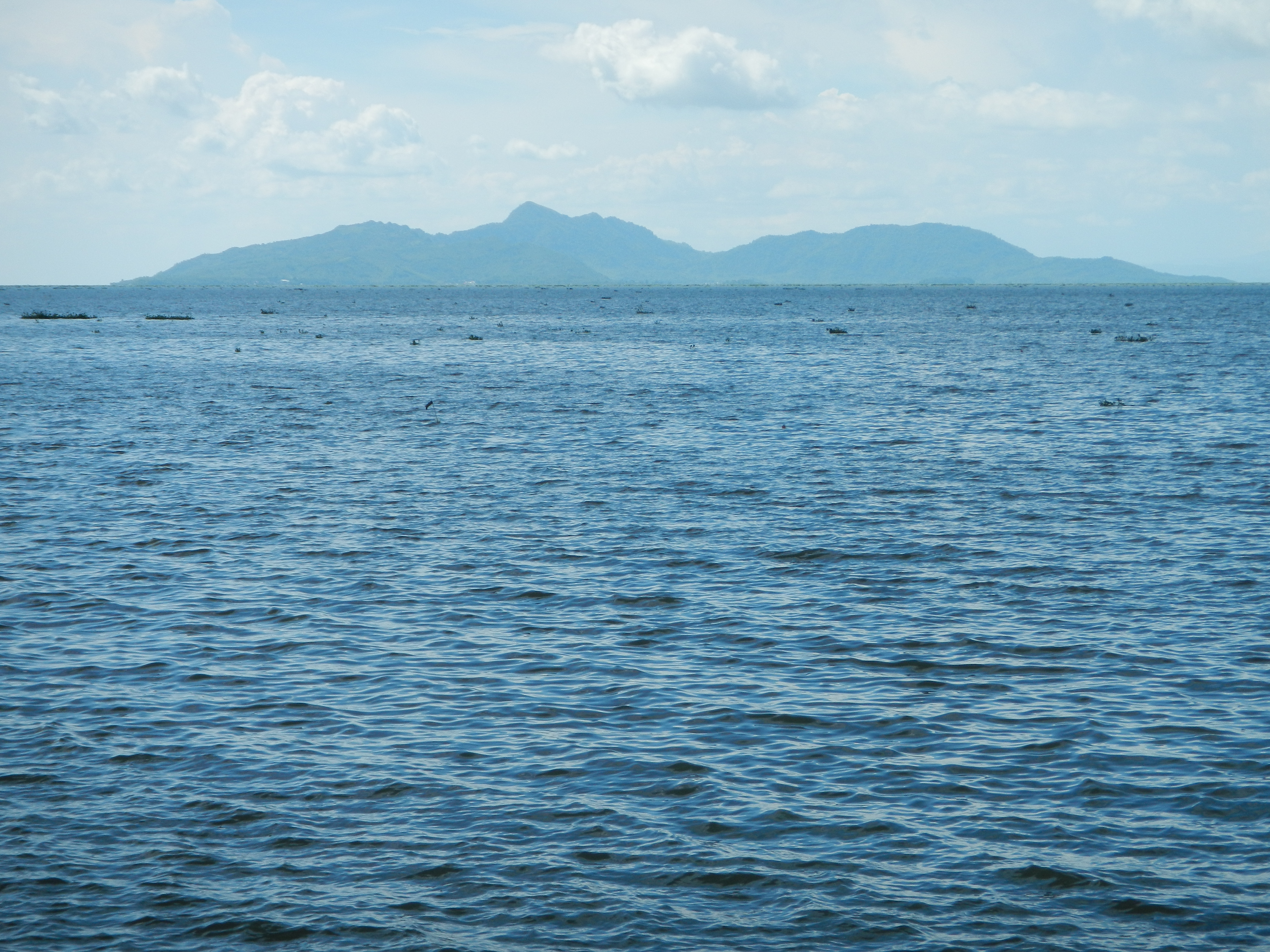 Barangay San Antonio De Bay[1] [2] Aplaya, with Barangay Hall's basketball Court, gymnasium and mini-Chapel and Laguna de Bay and [3] Mount Makiling [4] in --- Bay, Laguna[5] (is a second class[6] municipality politically subdivided into 15 barangays, one of the oldest towns in the province of Laguna[7], Philippines, covering even Los Baños [8] and Calauan[9]. In 1581, Bay became the capital of the Province of Laguna de Bay and remained so until 1688 when the capital was moved to Pagsanjan. The Patron of Bay is Saint Augustine of Hippo [10] celebrating his Feast Day during August 28. [11] Coordinates: 14°8'1"N 121°15'9"E [12] Laguna, Region 4, Philippines, Asia Geographical coordinates: 14° 10' 58" North, 121° 17' 5" East This place is situated in Laguna, Region 4, Philippines, its geographical coordinates are 14° 10' 58" North, 121° 17' 5" East and its original name (with diacritics) is Bay. LLDA [13]).